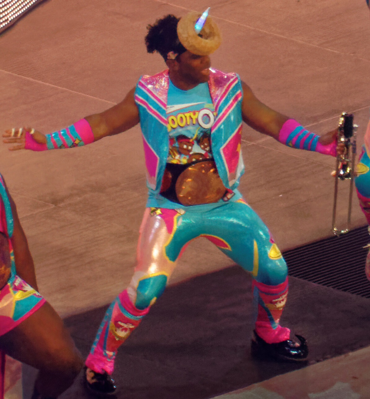 The Raw after WrestleMania 32Big E (c) & Kofi Kingston (c) def. (pin) King Barrett & Sheamus (in 08:45) For: WWE Tag Team Championship